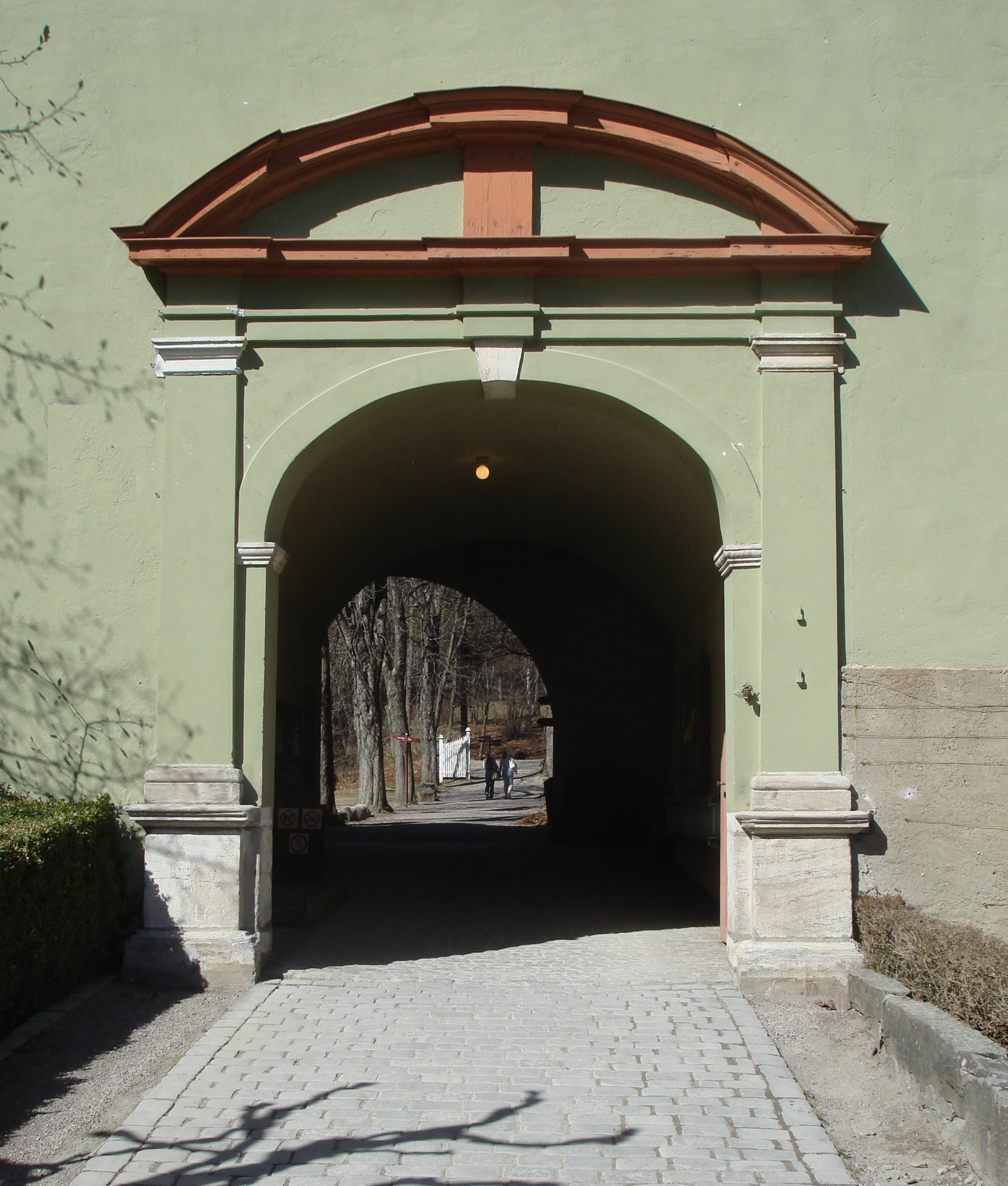 Gateway dated 1757 from Rådhusgata 13, Oslo. Now at the Norsk Folkemuseum.